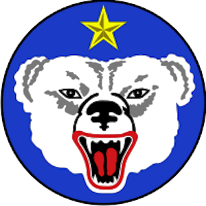 U.S. Army Alaska - Emblem